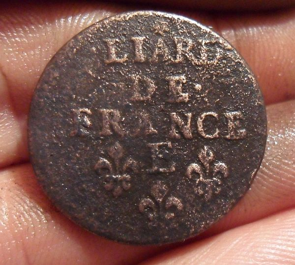 French "Liard de France" coin from 1655. (Private collection of the uploader)